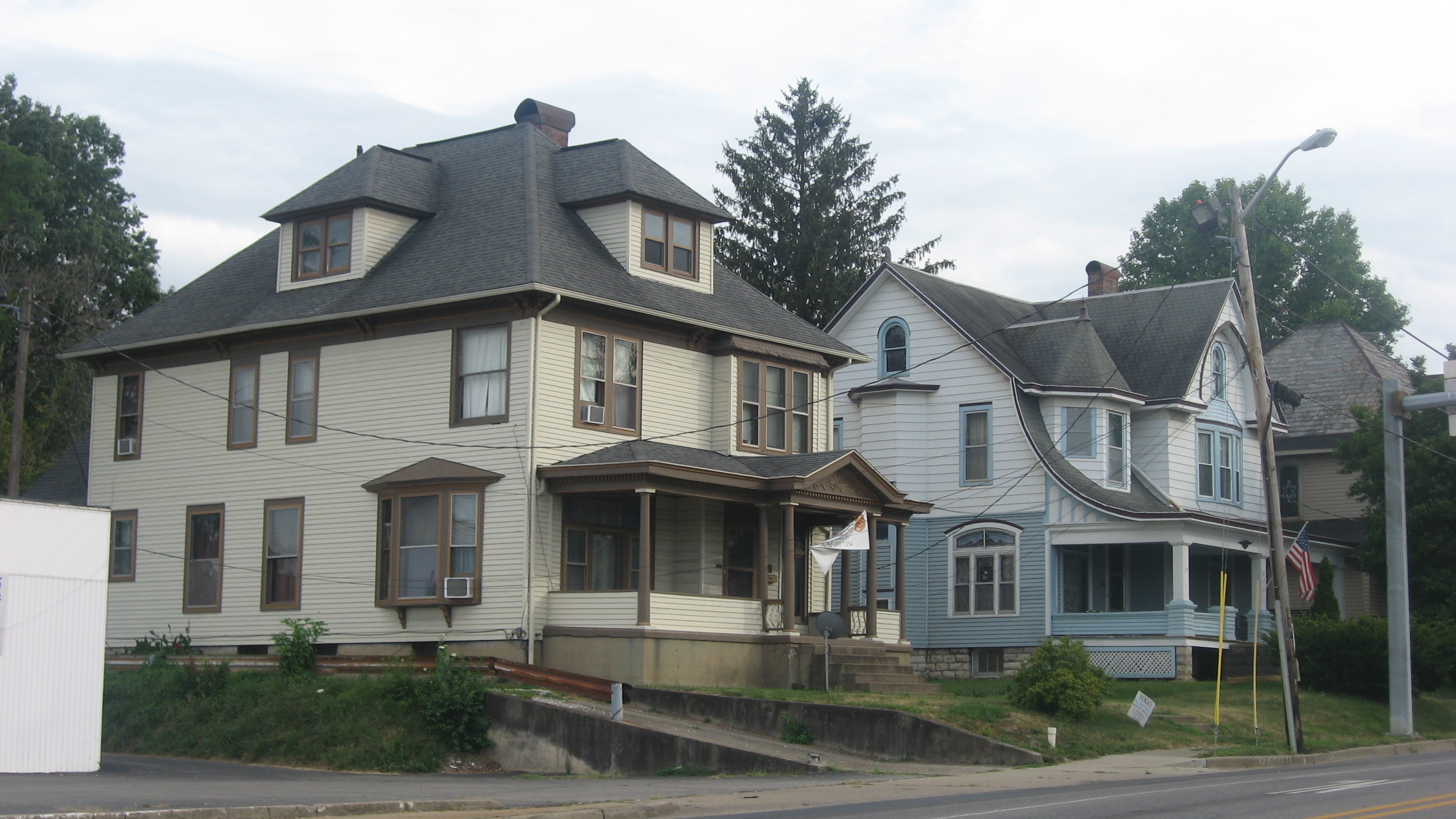 Houses on the southern side of the first block of W. Walnut Street (U.S. Route 50) in North Vernon, Indiana, United States. From left to right, they are: 15 W. Walnut: Platter House, built in 1907. 19 W. Walnut: Charles Platter House, built in 1901. 29 W. Walnut: Frank Platter House, built in 1901. This block is part of the Walnut Street Historic District, a historic district that is listed on the National Register of Historic Places.